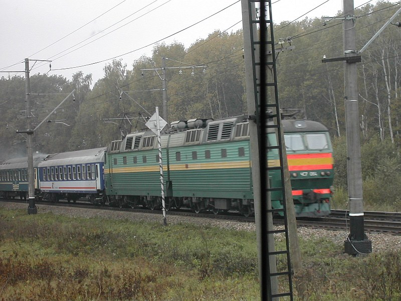 "Polonez" train from Warsaw to Moscow approaching Mozhaisk on Sept.26, 2004.